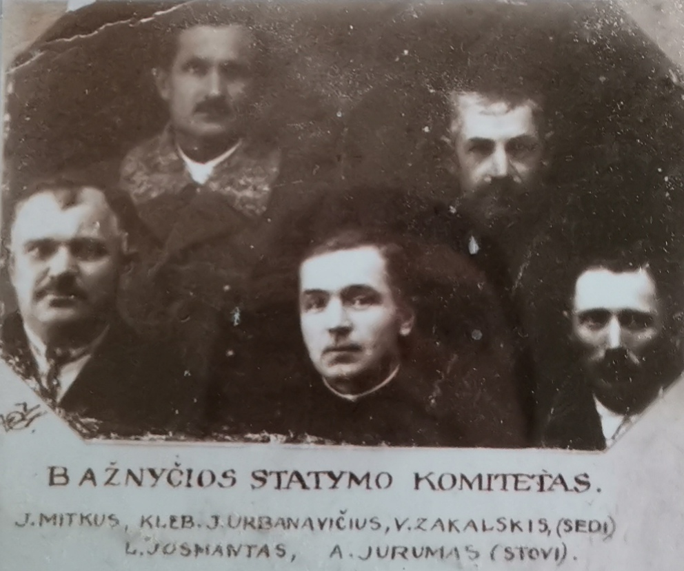 Committee of the construction of Renavas church. Photo from the church archives